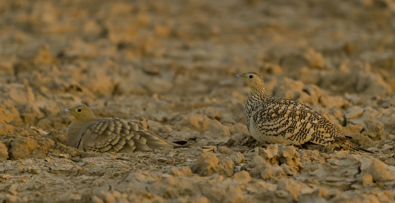 Roosting pair